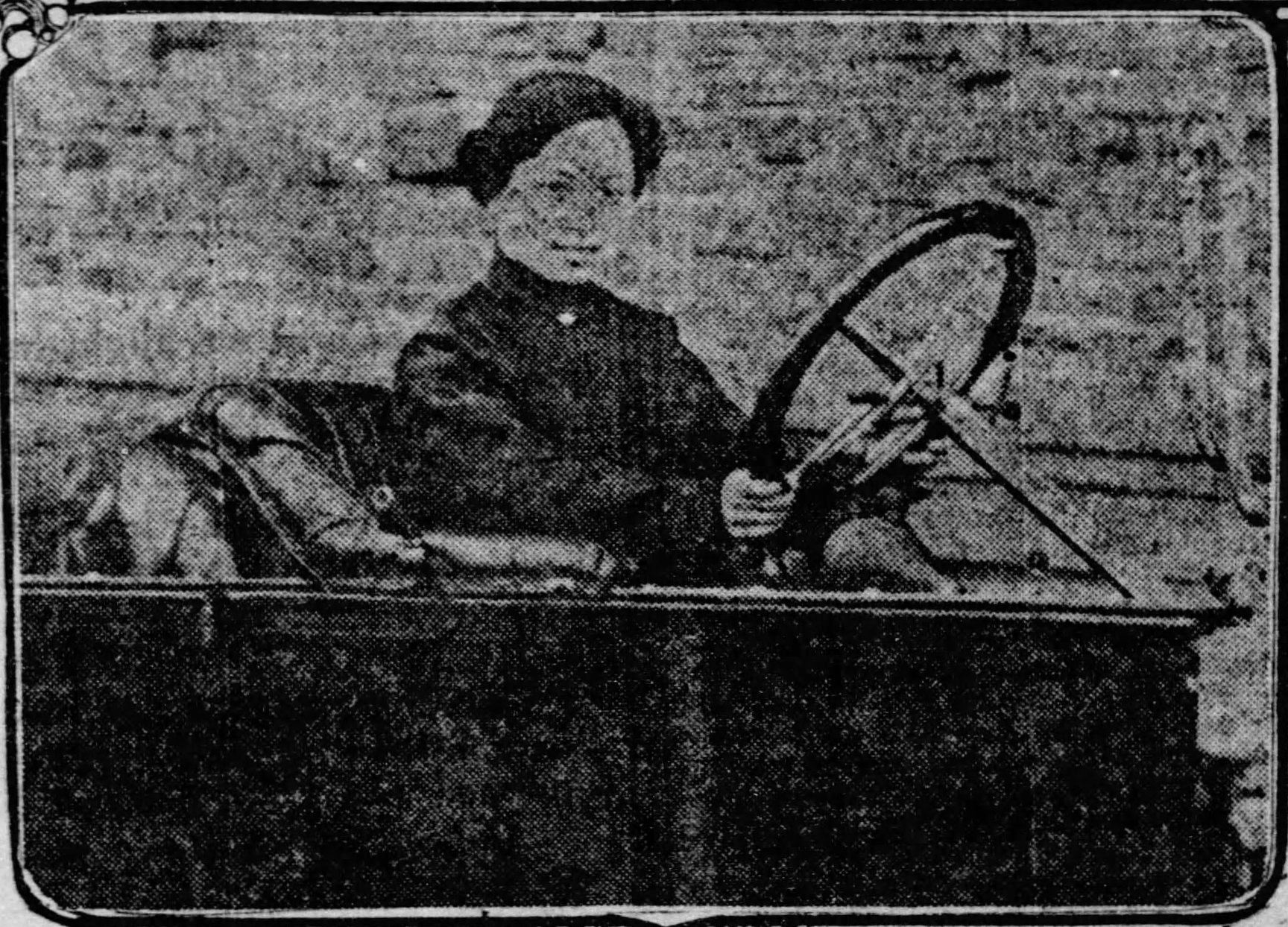 The San Francisco Call San Francisco, California 19 May 1912, Sun • Page 67